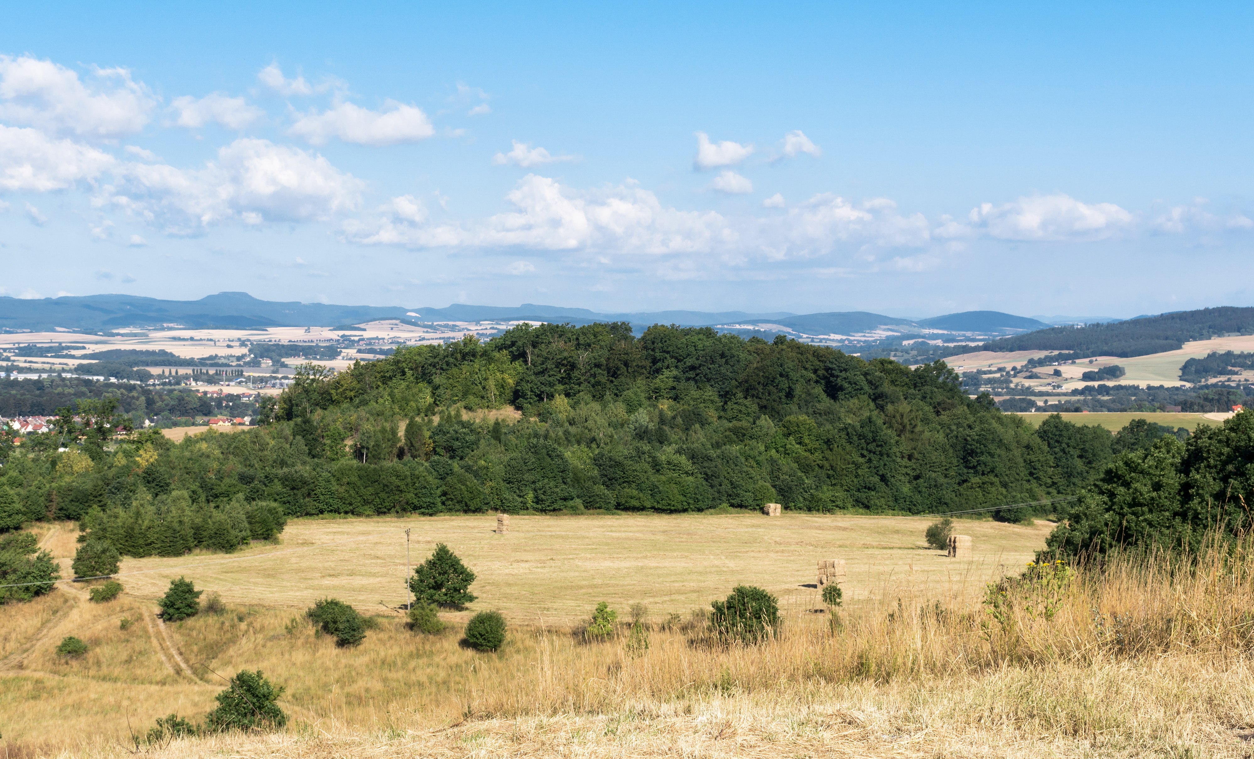 Szyndzielnia, Bardzkie Mountains, Sudetes